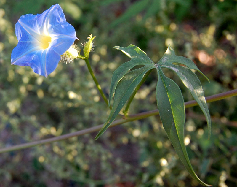 Canyon Morning-glory (Ipomoea barbatisepala) observed at Camp Creek, Maricopa County, Arizona, USA.